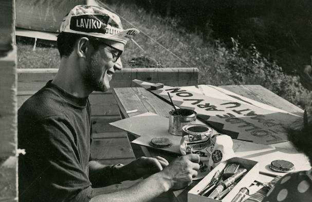 Kaarel Kurismaa preparing decorations at Laviku, near Võsu, where the holiday home of the Tallinn Department Store was located. 1966